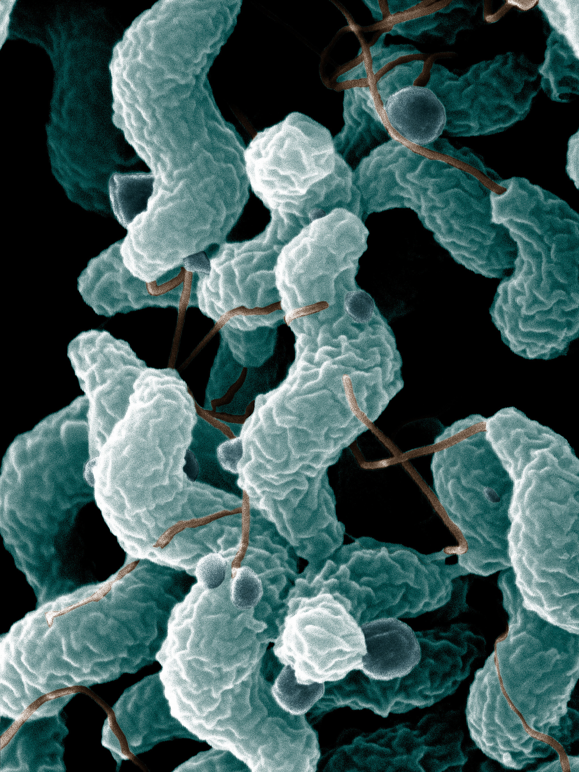 Campylobacter bacteria are the number-one cause of bacterial food-related gastrointestinal illness in the United States. To learn more about this pathogen, ARS scientists are sequencing multiple Campylobacter genomes. This scanning electron microscope image shows the characteristic spiral, or corkscrew, shape of C. jejuni cells and related structures. Photo by De Wood; digital colorization by Chris Pooley.